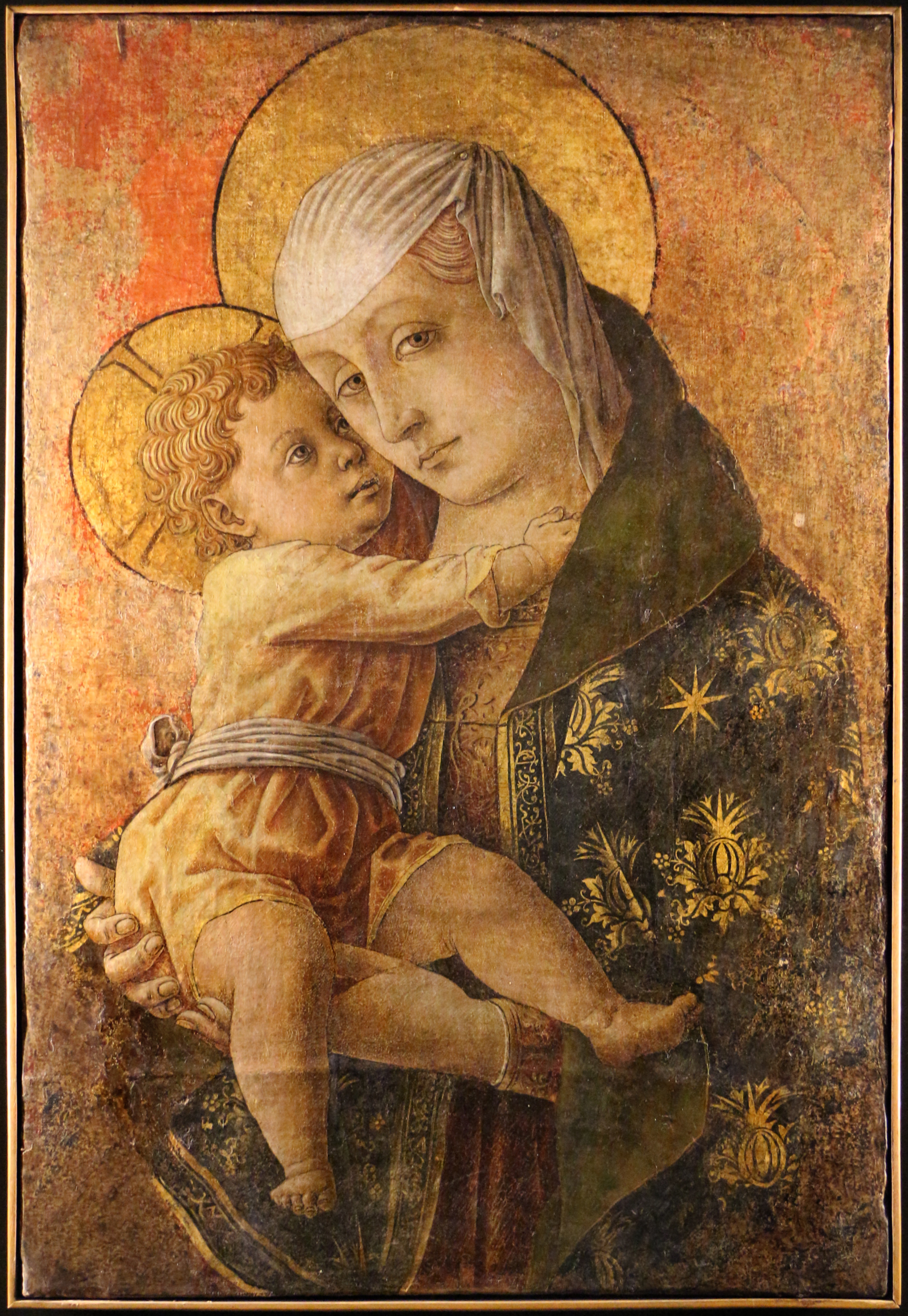 Palazzo Buonaccorsi (Macerata) - Old Masters